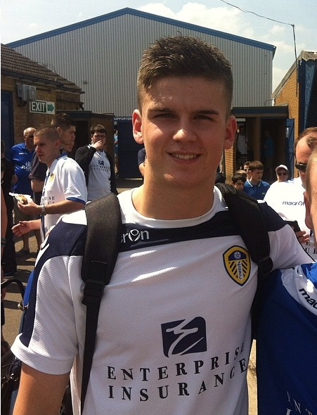 Leeds United football Sam Byram